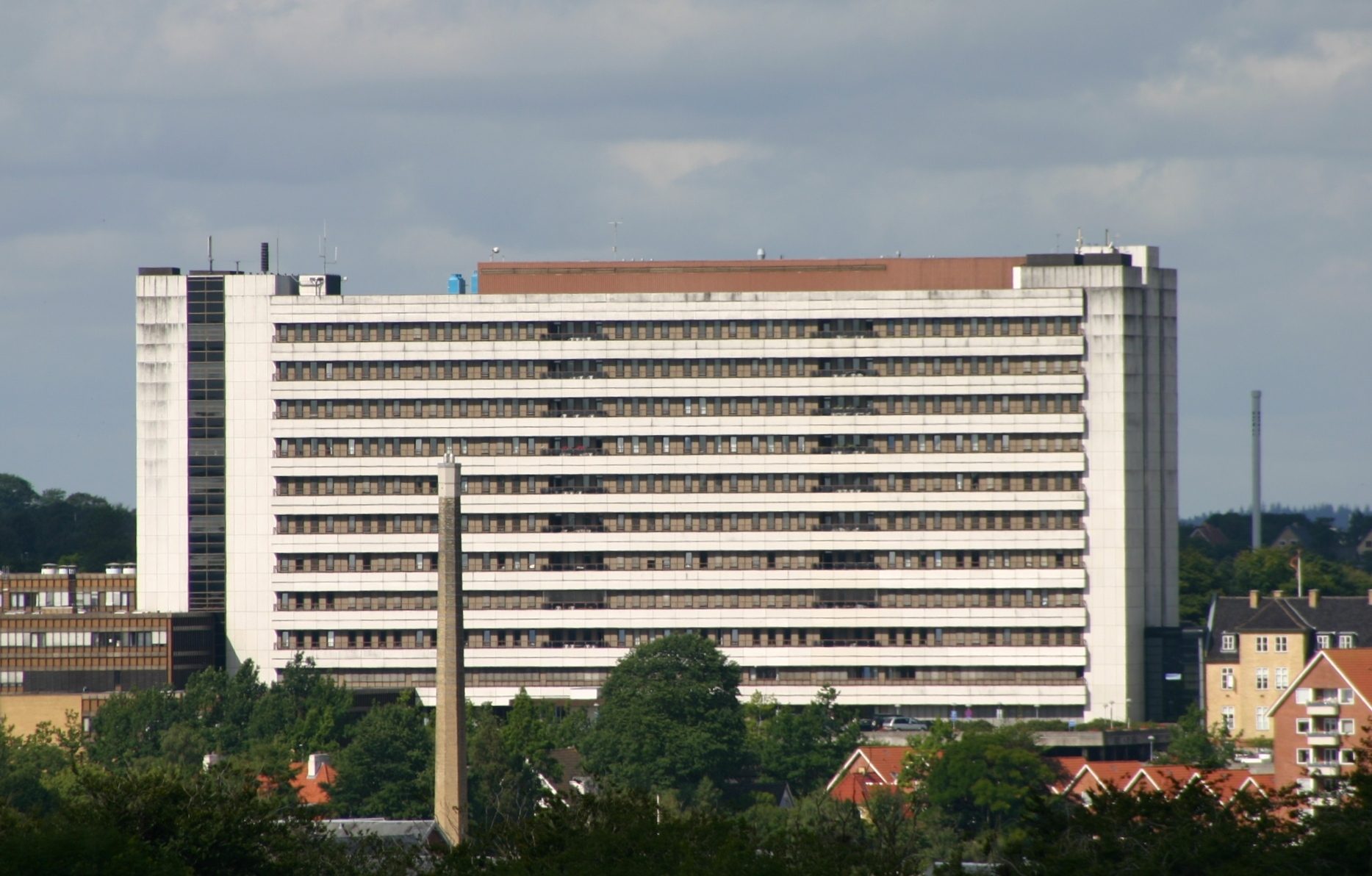 Regional Hospital of Viborg, Denmark